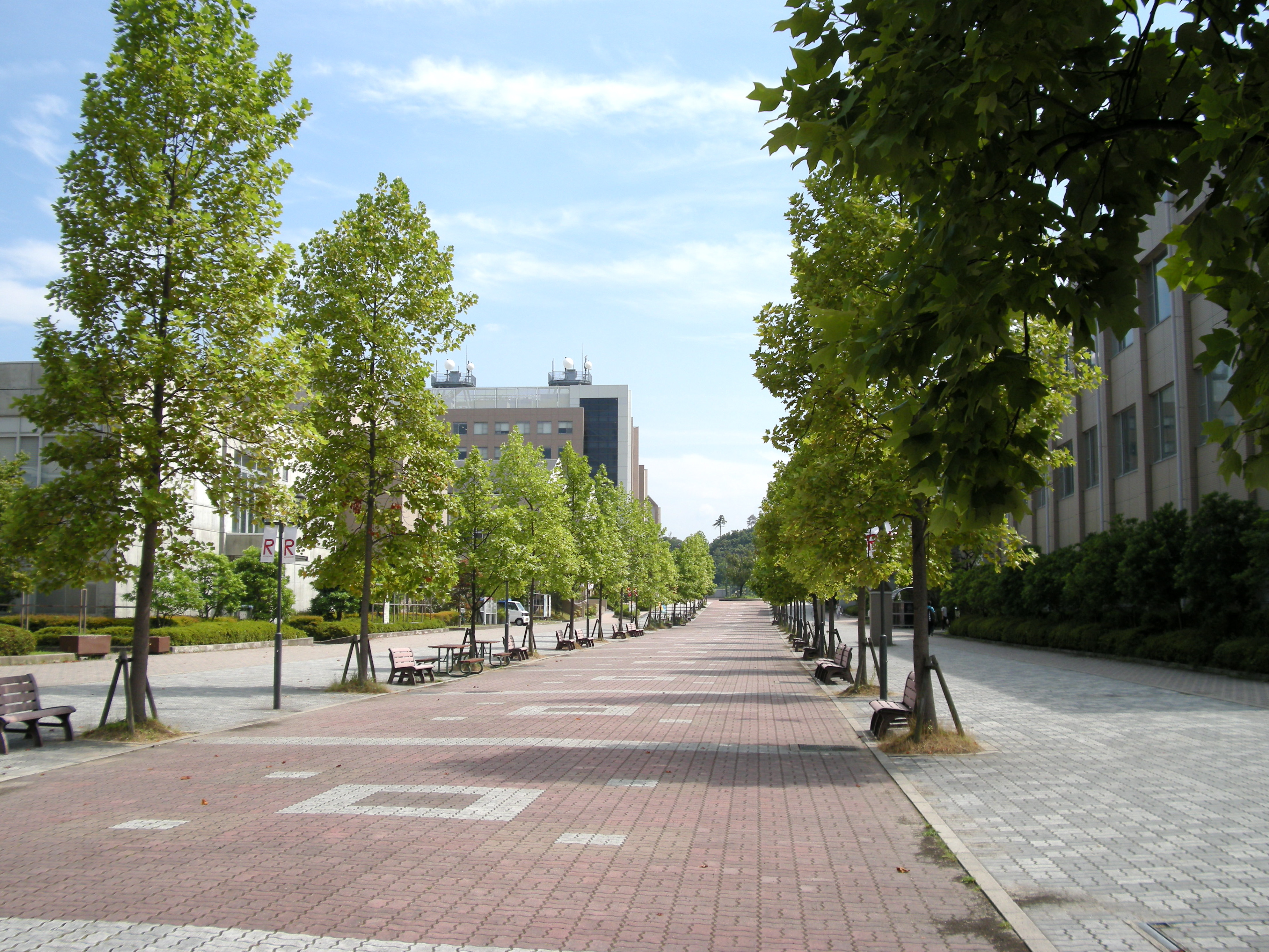 Campus Promenade of BKC, (Biwako Kusatsu Campus, Ritsumeikan University, Japan)